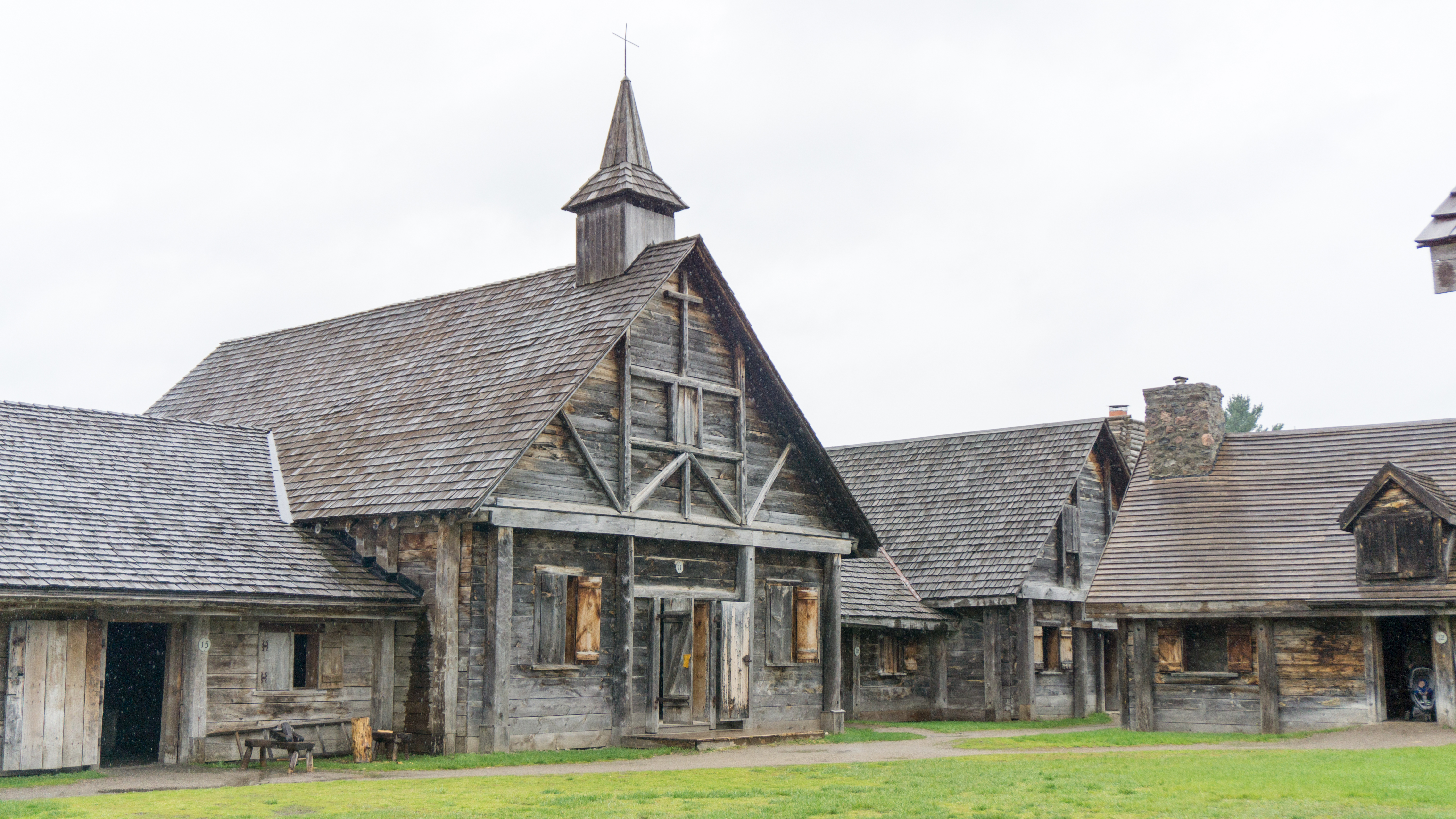 Sainte-Marie among the Hurons